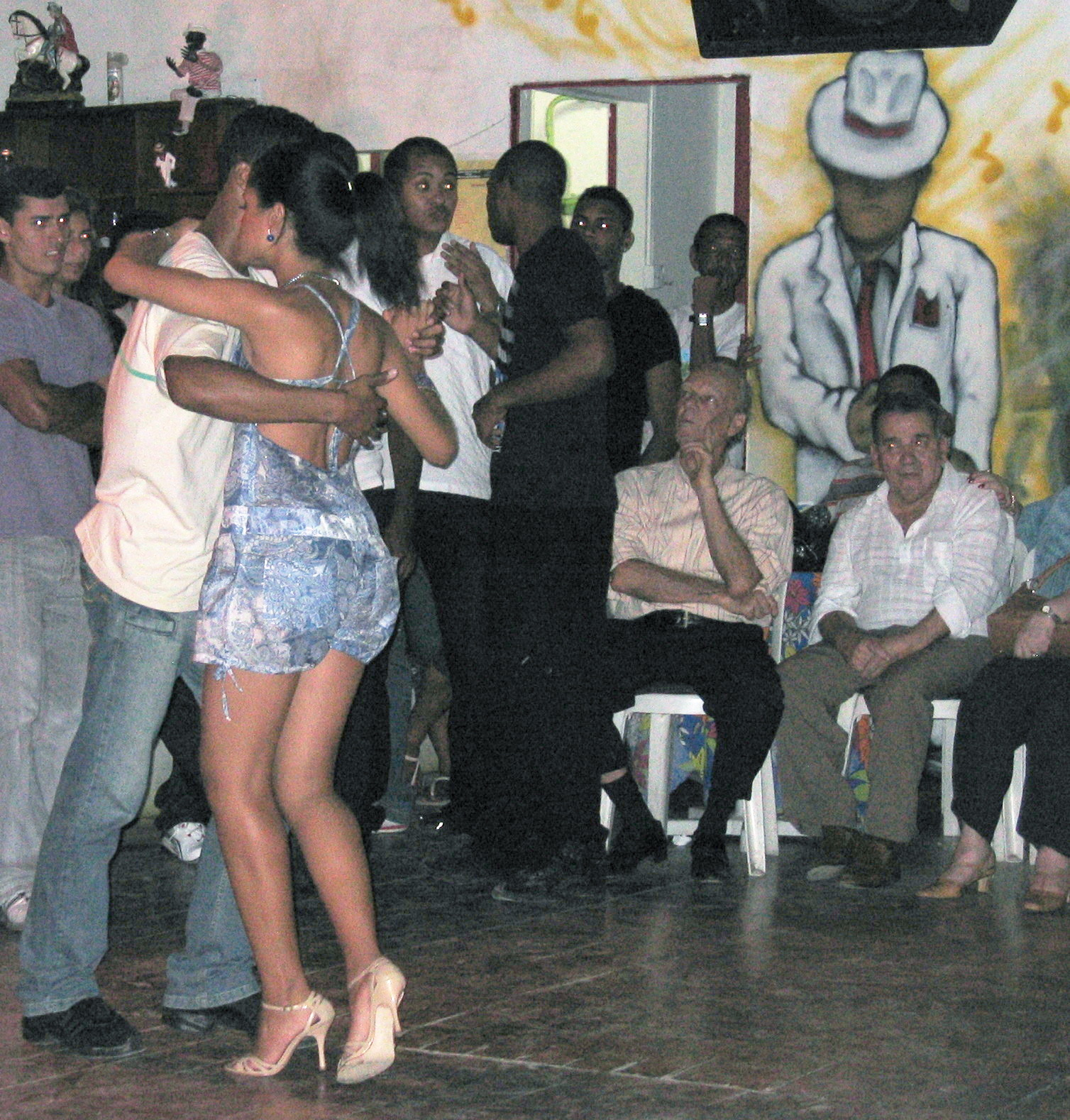 Cachanga do Malandro